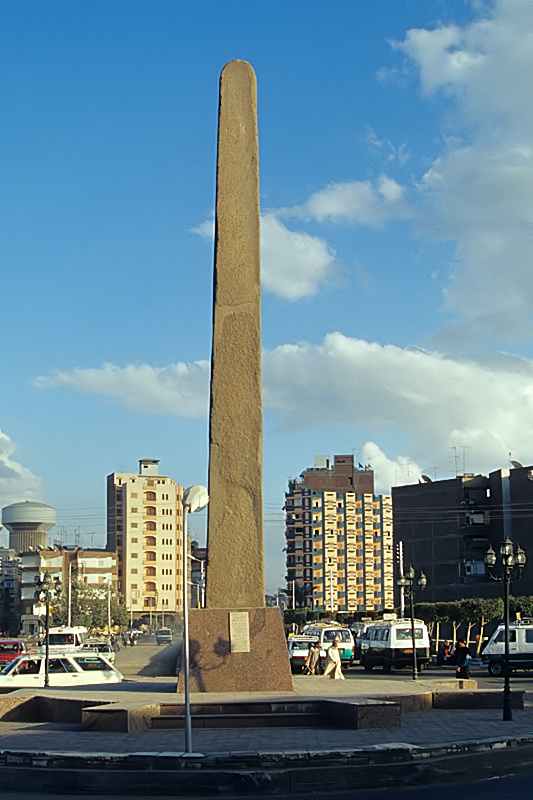 Obelisk of Sesostris I from Abgig, Fayyum, Egypt